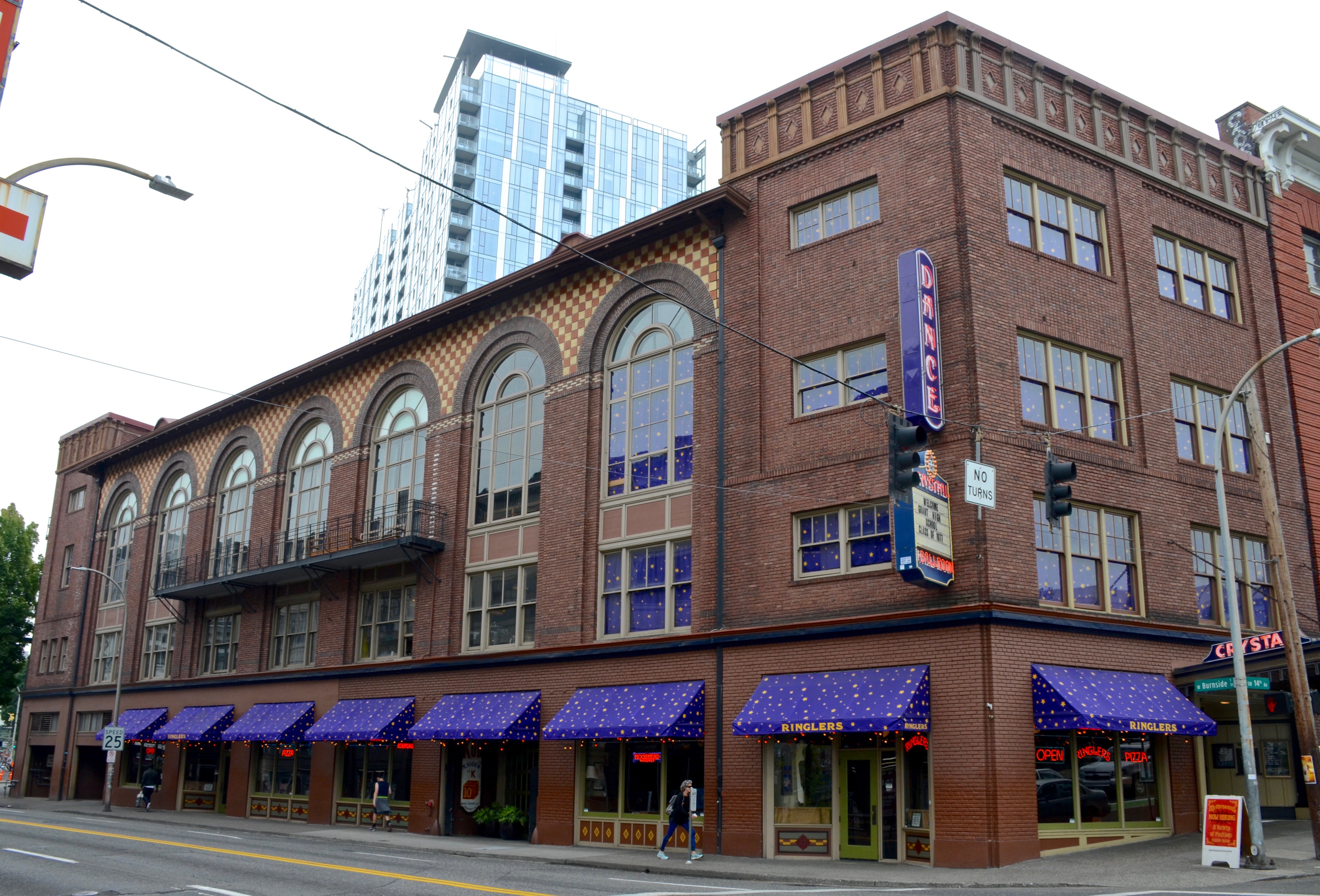 The Crystal Ballroom (originally Cotillion Hall) in downtown Portland, Oregon, viewed from the northwest, across the intersection of 14th Avenue and West Burnside Street. It was built in 1913–14 and is listed on the U.S. National Register of Historic Places under its original name.